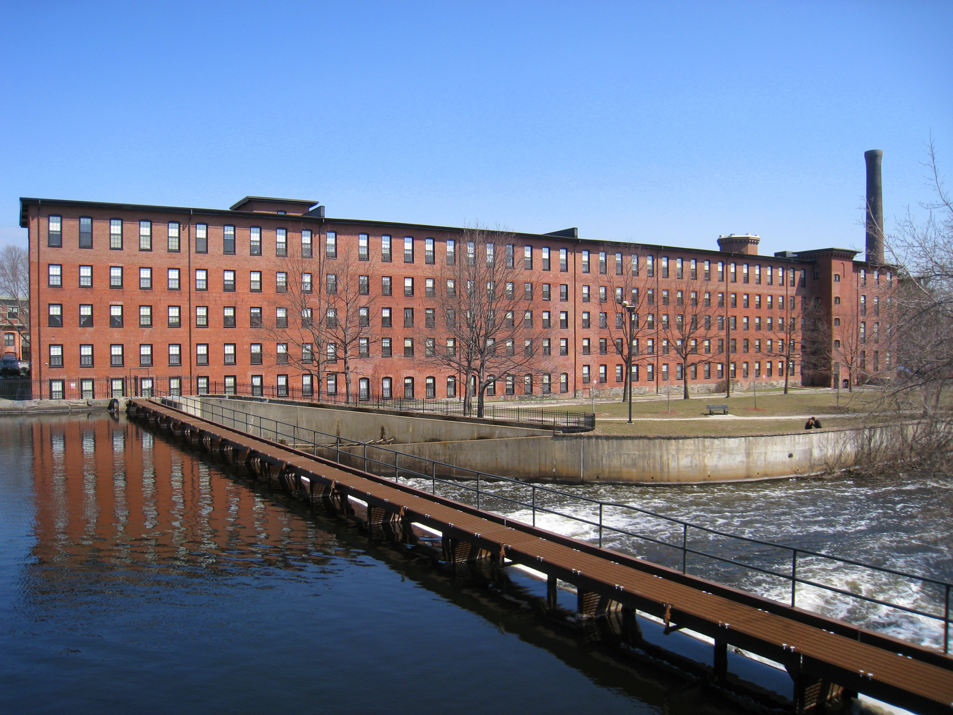 Boston Manufacturing Company mill complex on the Charles River, Waltham, Massachusetts, USA. Also called the Francis Cabot Lowell Mill. Earliest portions built in 1814 and 1816.